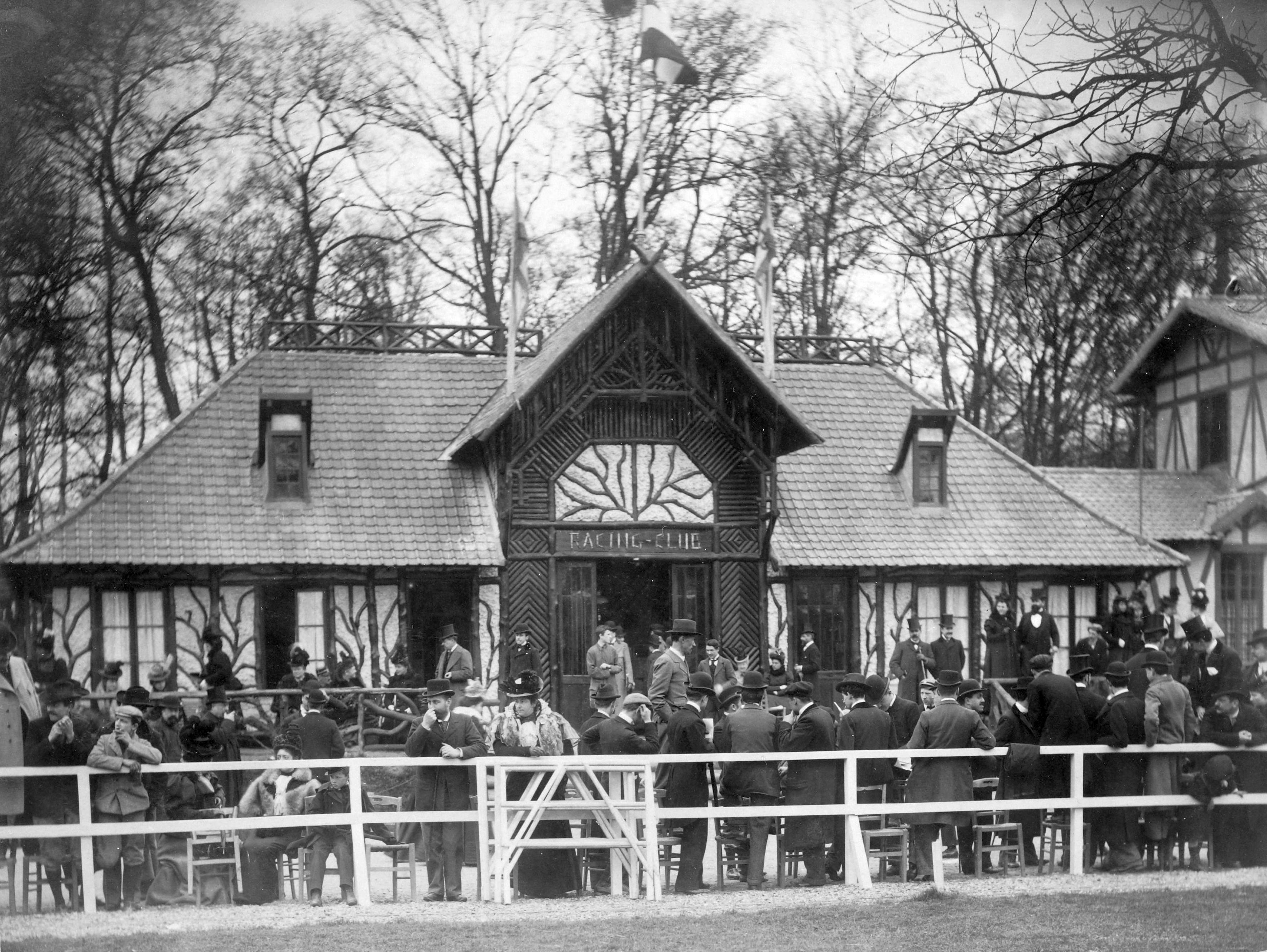 [Collection Jules Beau. Photographie sportive] : T. 6. Année 1898 / Jules Beau : F. 14. Racing-club